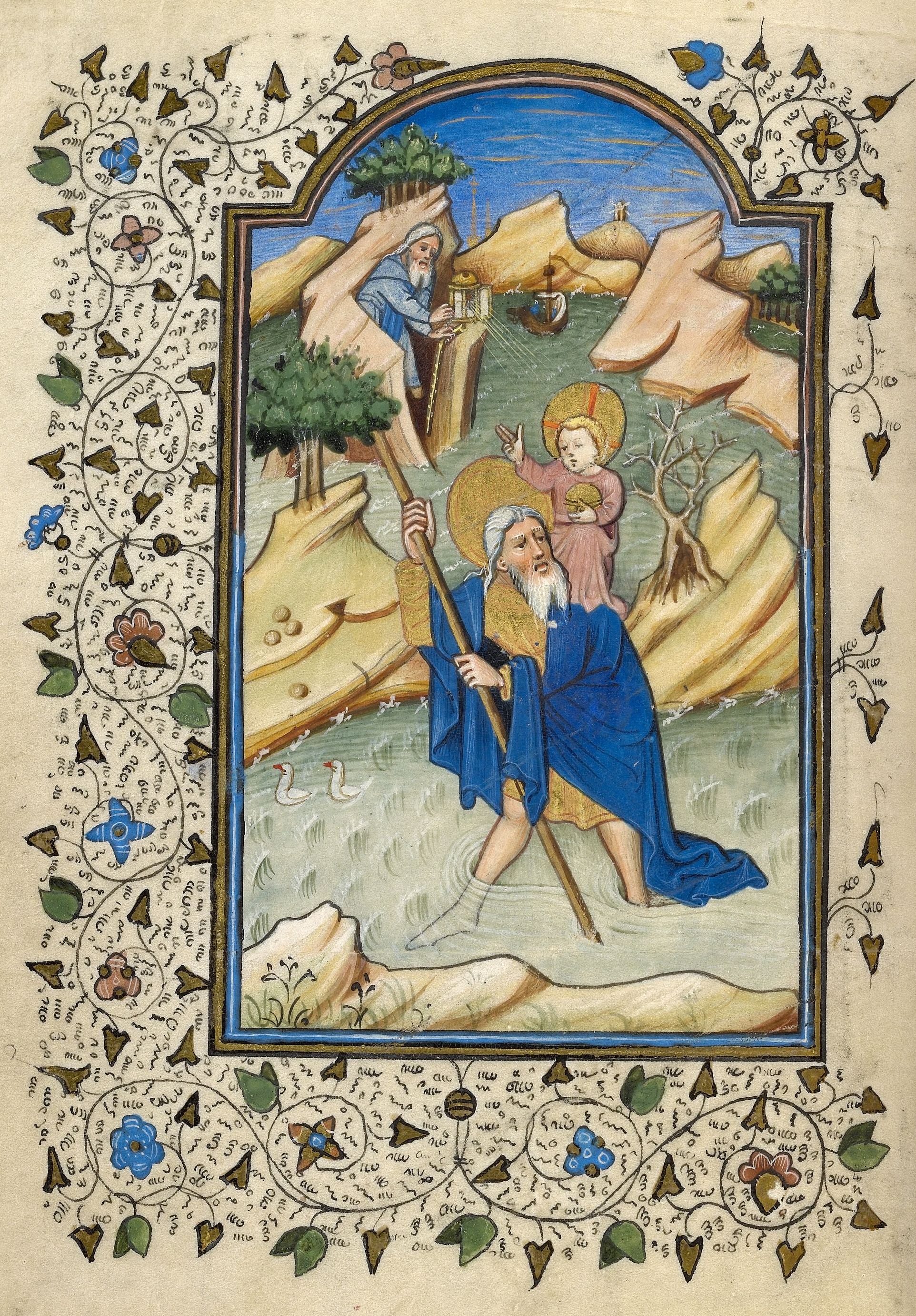 St Christopher with the Christ Child, illuminated plate from a Book of Hours, Ghent